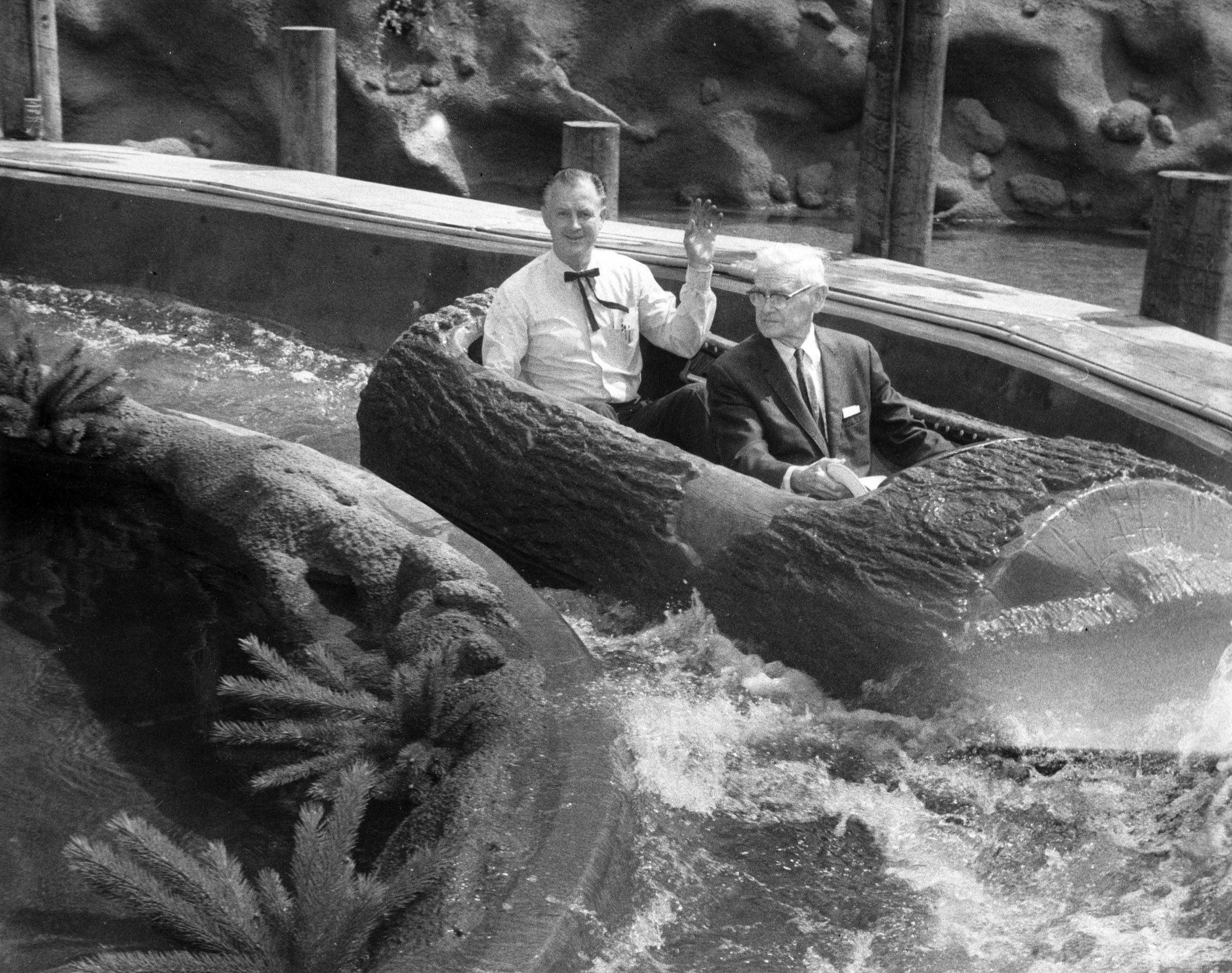 Walter Knott (in front) and ride designer/builder/operator Bud Hurlbut ride the newly-completed Timber Mountain Log Ride at Knott's Berry Farm, in Buena Park, California, in 1969. There are no known copyright restrictions on this image. All future uses of this photo should include the courtesy line, "Photo courtesy Orange County Archives." Comments are welcome after reading our Comment Policy .